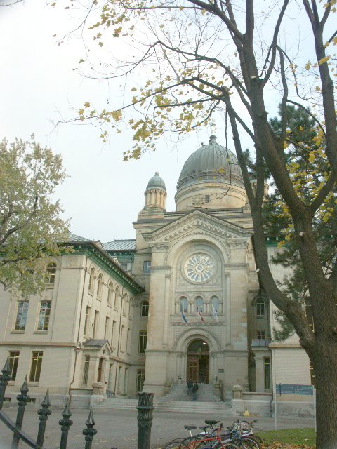 Dawson College, facade on Sherbrooke Street West, Montreal. Photo: user:gene.arboit